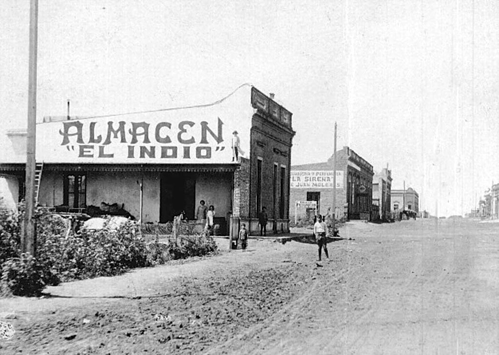 A street (still a dirty road) of General Madariaga, an Argentine rural city in Buenos Aires Province. At the front, a warehouse named "El Indio" and some kids posing for the photographer.